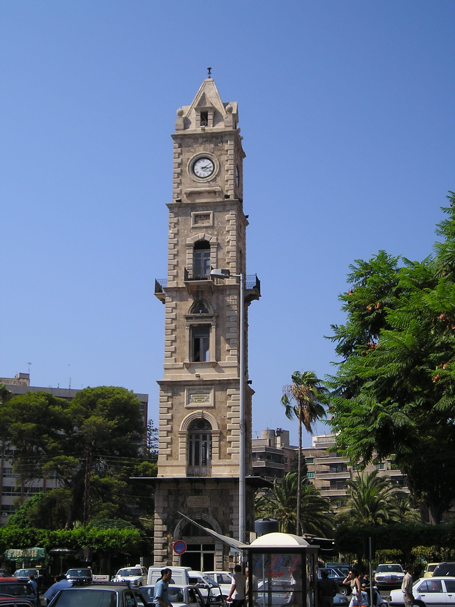 Tripoli, Lebanon - a clock tower at the Sahat at-Tall